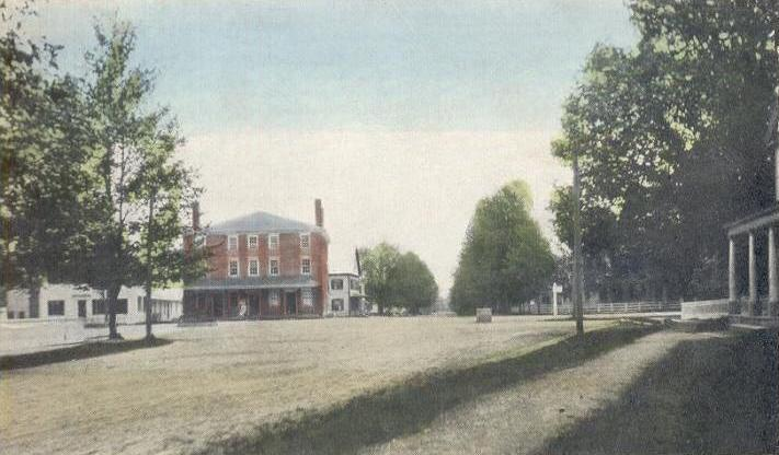 Post Office Square & Store, Amherst Plains, NH; from a 1910 postcard.